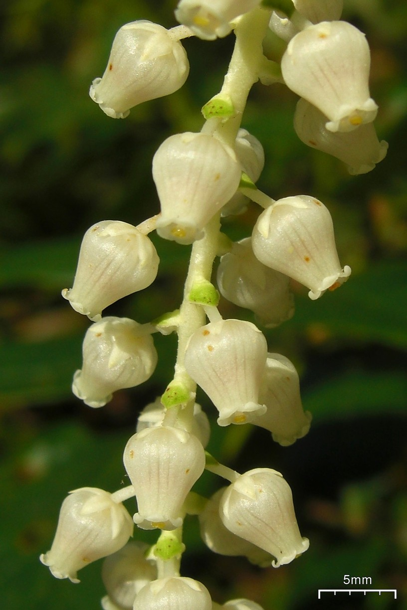 Leucothoe fontanesiana 20100506.32 Great Smoky Mountains, NC